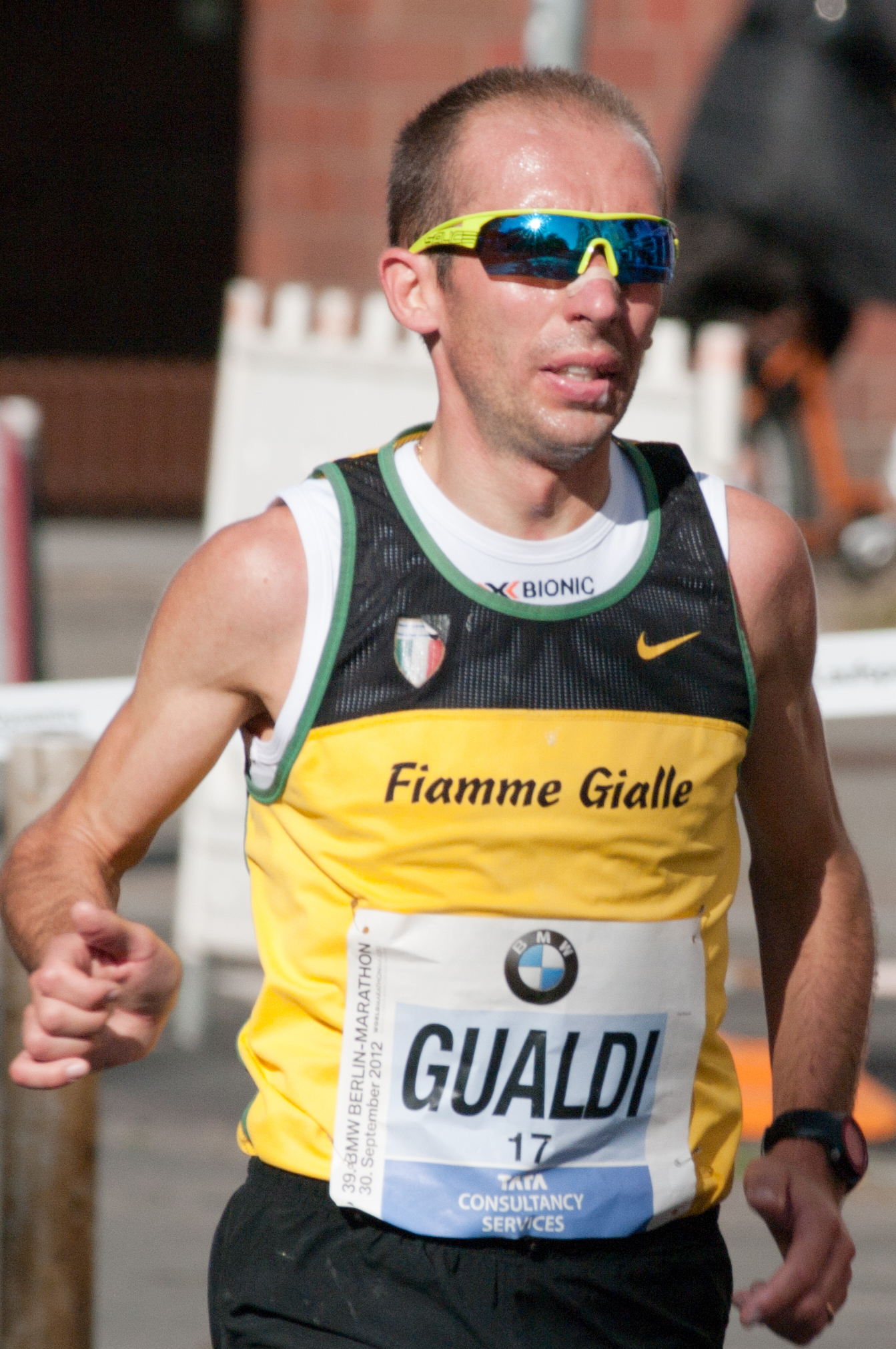 Italian runner Giovanni Gualdi at the Berlin Marathon 2012. Here on Bülowstraße, between Kilometers 36 and 37.